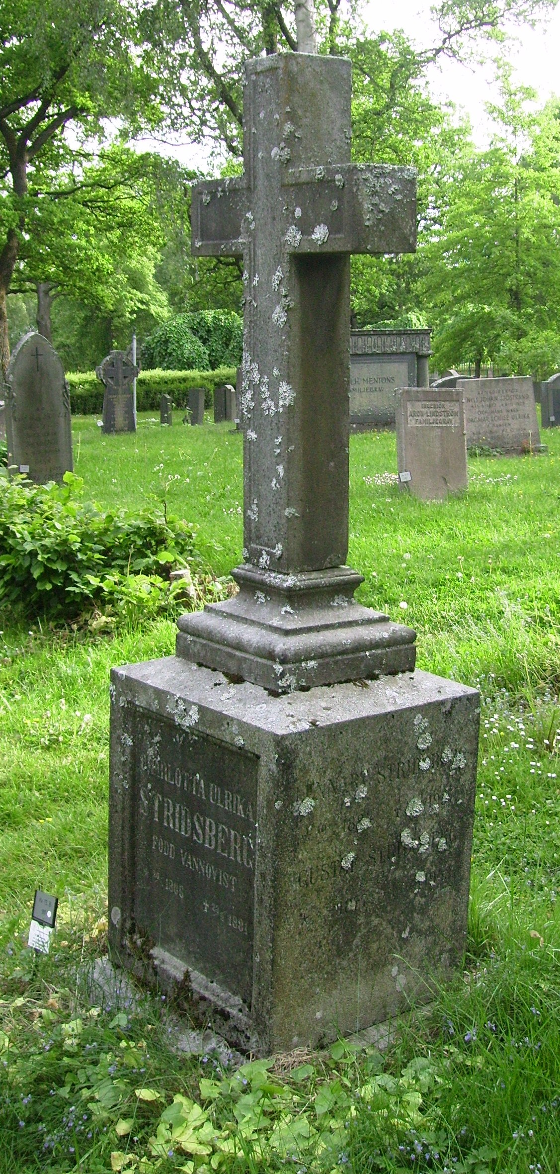 Picture of Gustaf Stridsberg's grave at Norra begravningsplatsen in Solna